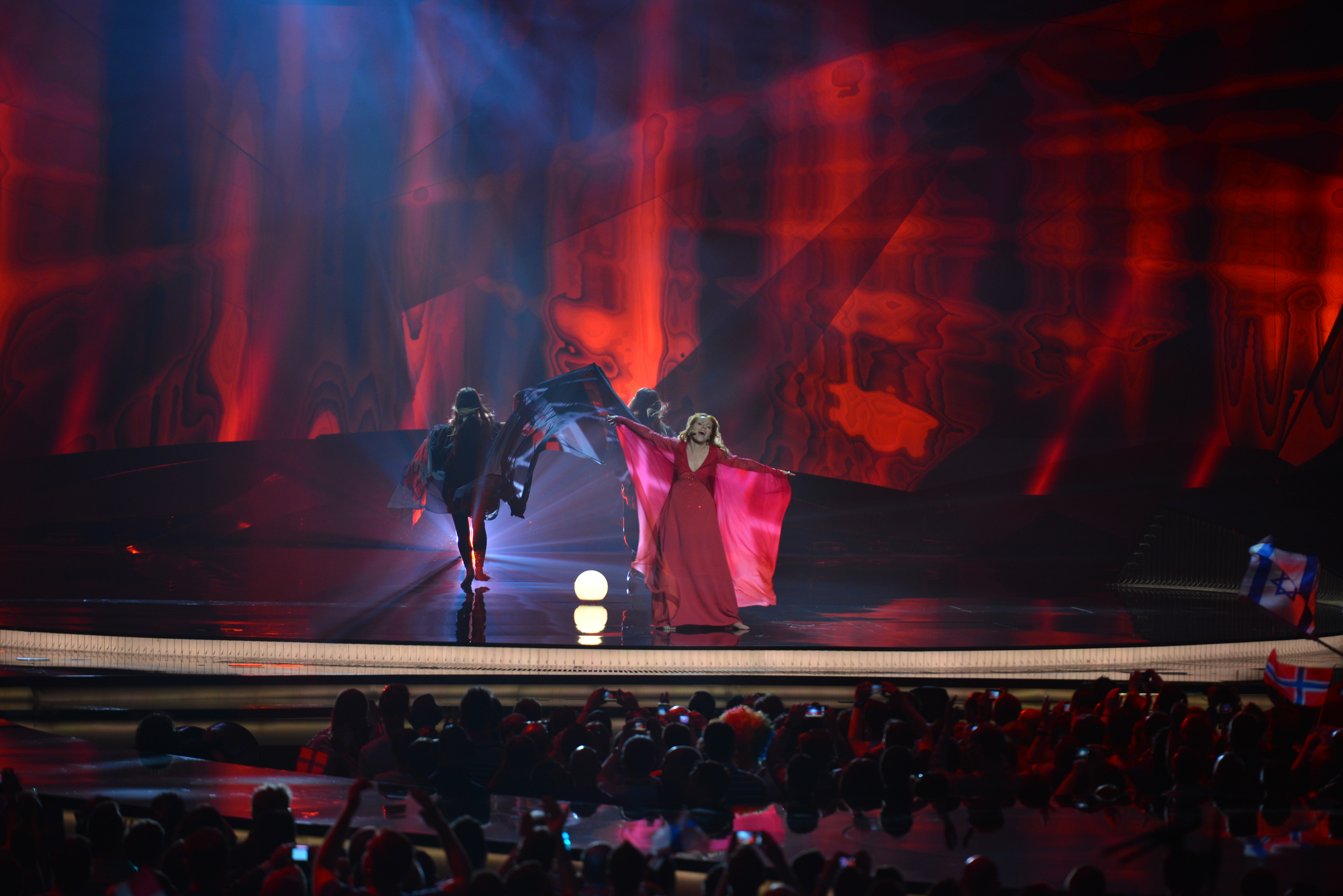 Valentina Monetta representing San Marino with the song "Crisalide (Vola)" during the second dress rehearsal of the second semi final of the Eurovision Song Contest 2013 in Malmö. (Help translate this text)